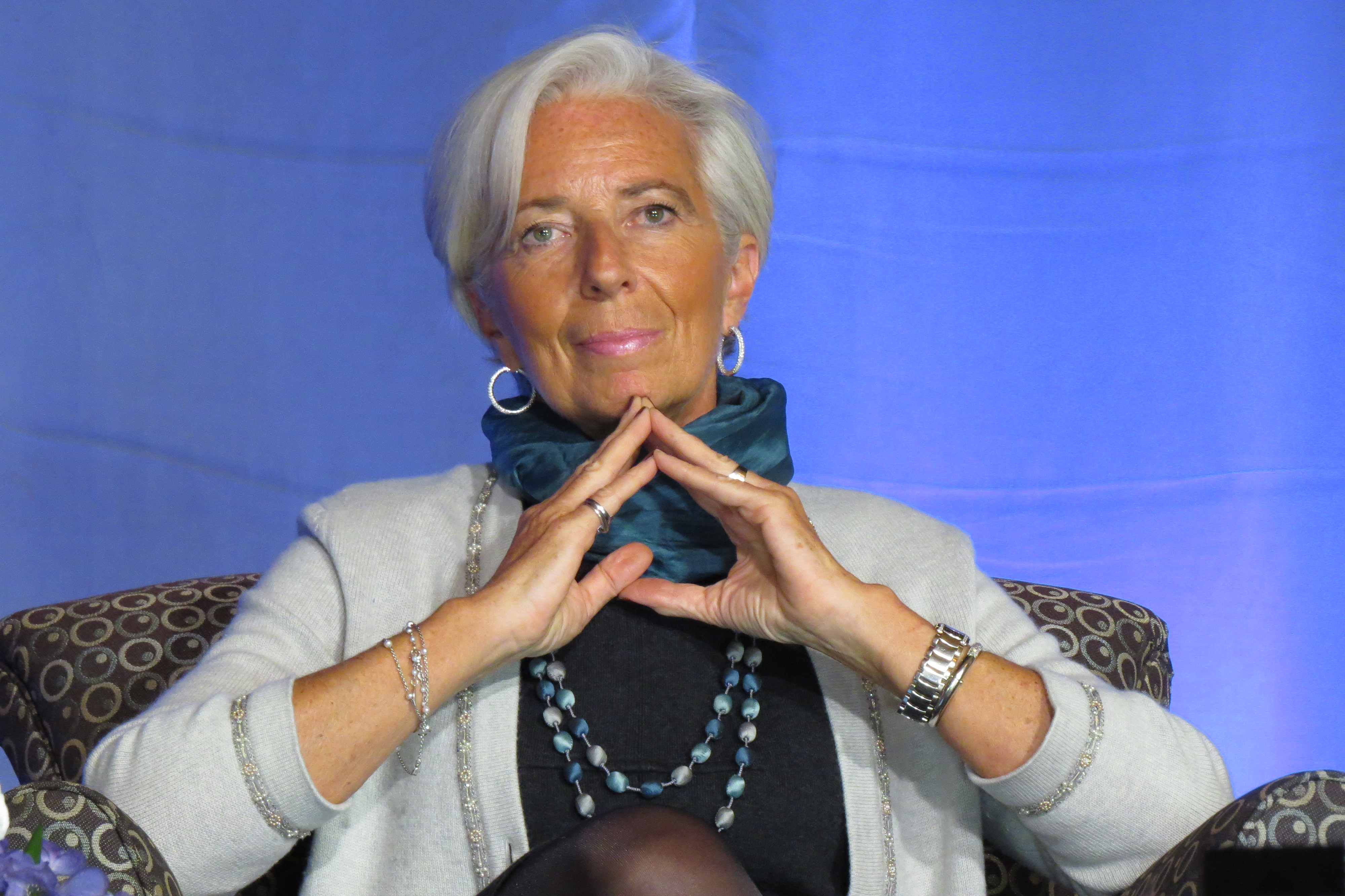 International Monetary Fund chief Christine Lagarde sits in a chair on stage at a public forum organized by the Madeleine Korbel Albright Institute for Global Affairs at Wellesley College. Lagarde made headlines for her declaration that economic "inequality is sexist." She makes a "Merkel-Raute" or "Triangle of Power" gesture with her hands.